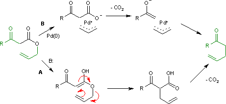 Carrol rearrangement reaction mechanism